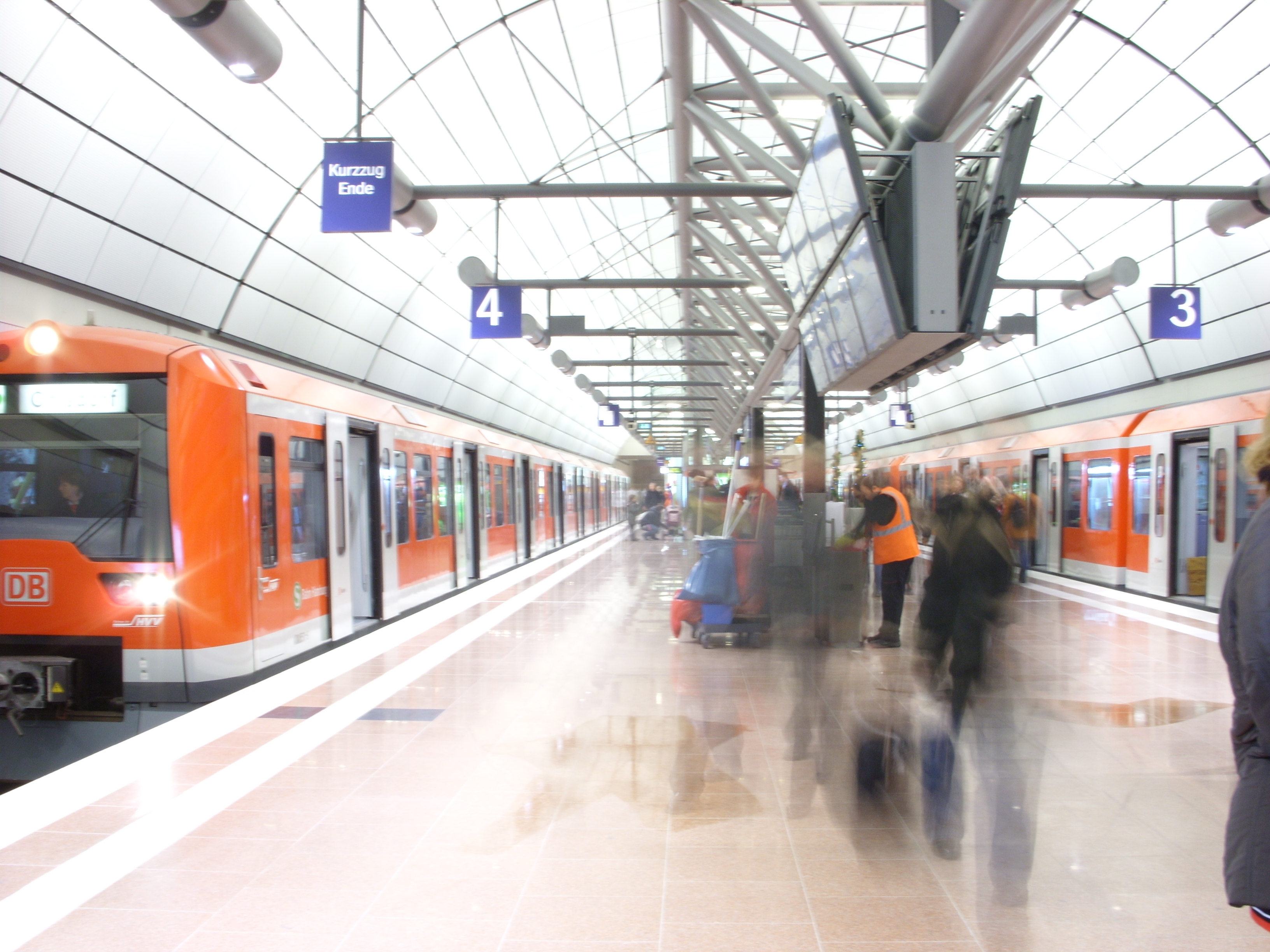 Opening-Ceromony of the S-Bahn-Station "Hamburg Airport (Flughafen)" view-point Lift to the terminal 2